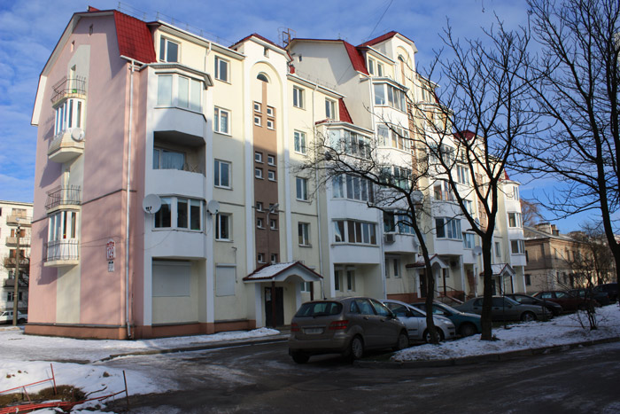 modern house at K. Liebknecht Street in Minsk, Belarus